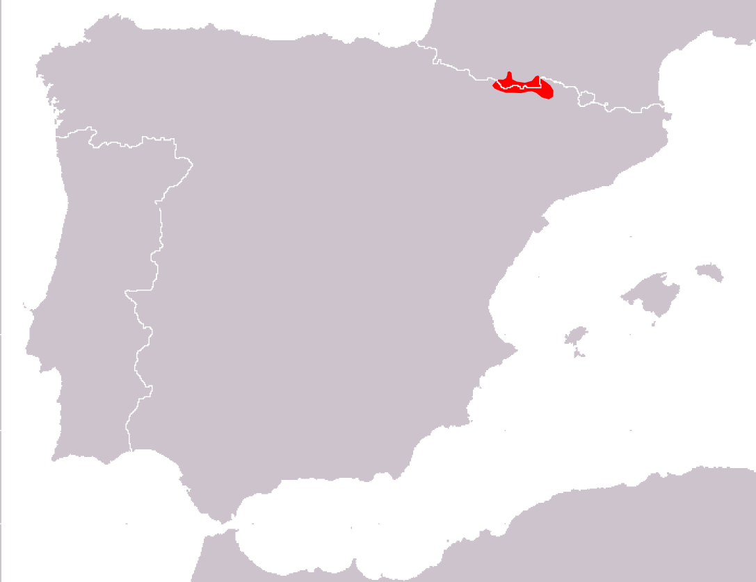 Iberolacerta bonnali range map.